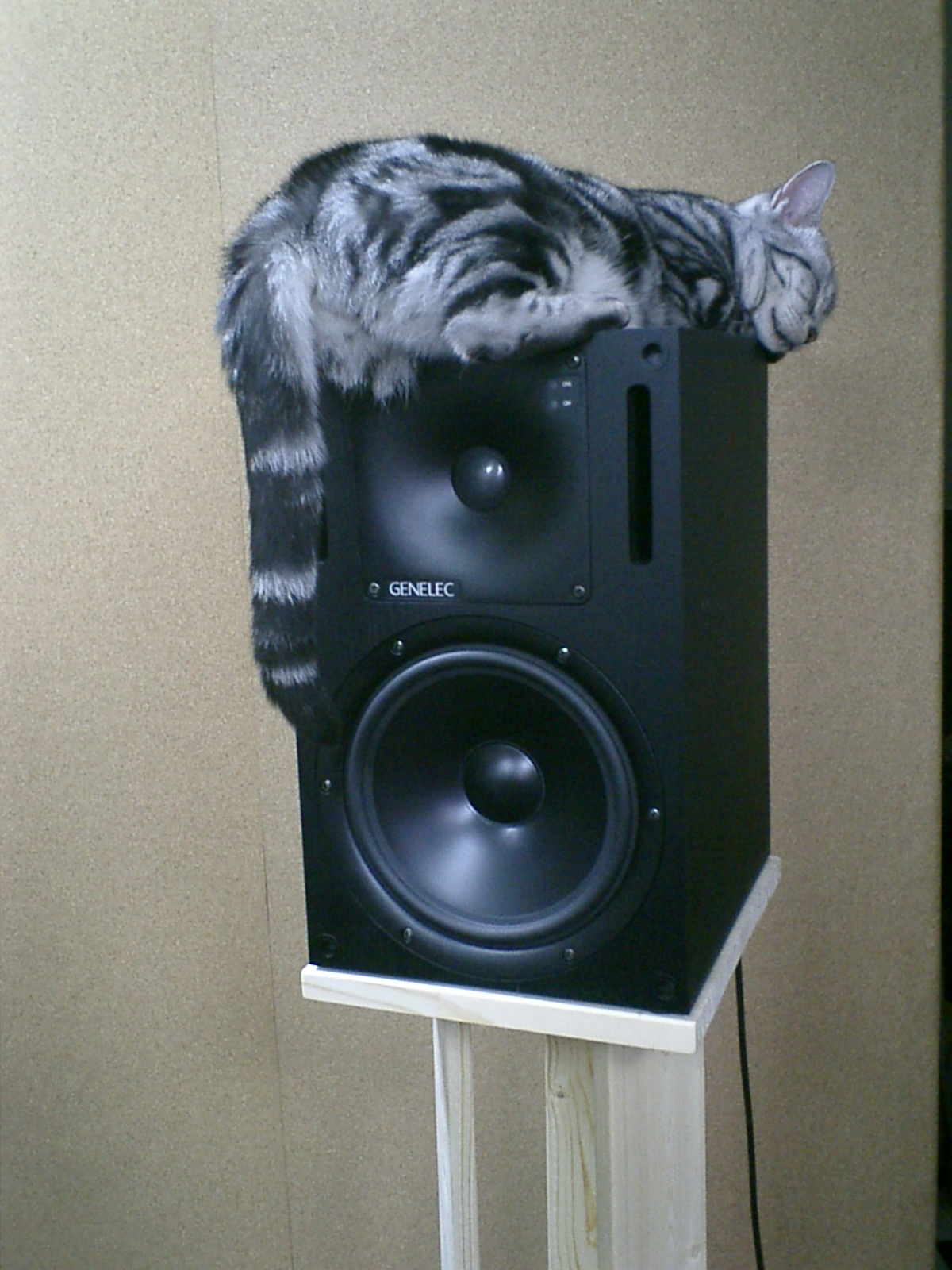 GENELEC 1030A chibiko is sleeping on the loudspeaker.....Zzzzz